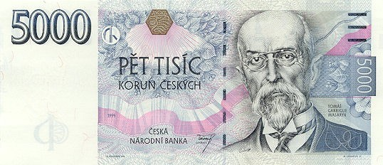 Obverse of Czech koruna five-thousand crowns bill.